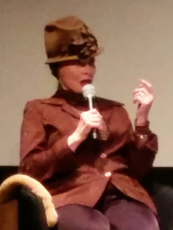 Toni Basil at SFMOMA in San Francisco, California, United States